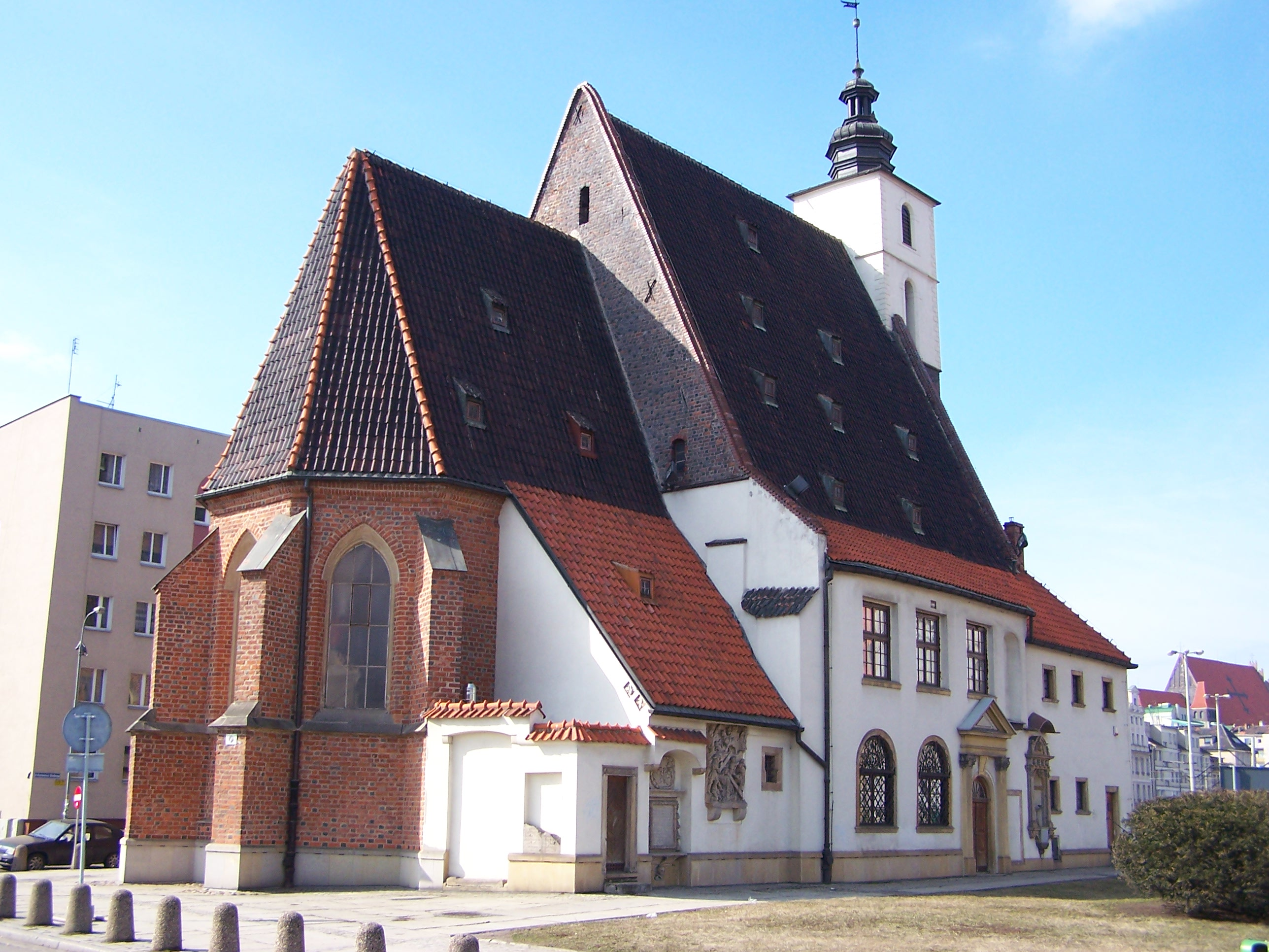 St. Christopher church in Wrocław (Poland).